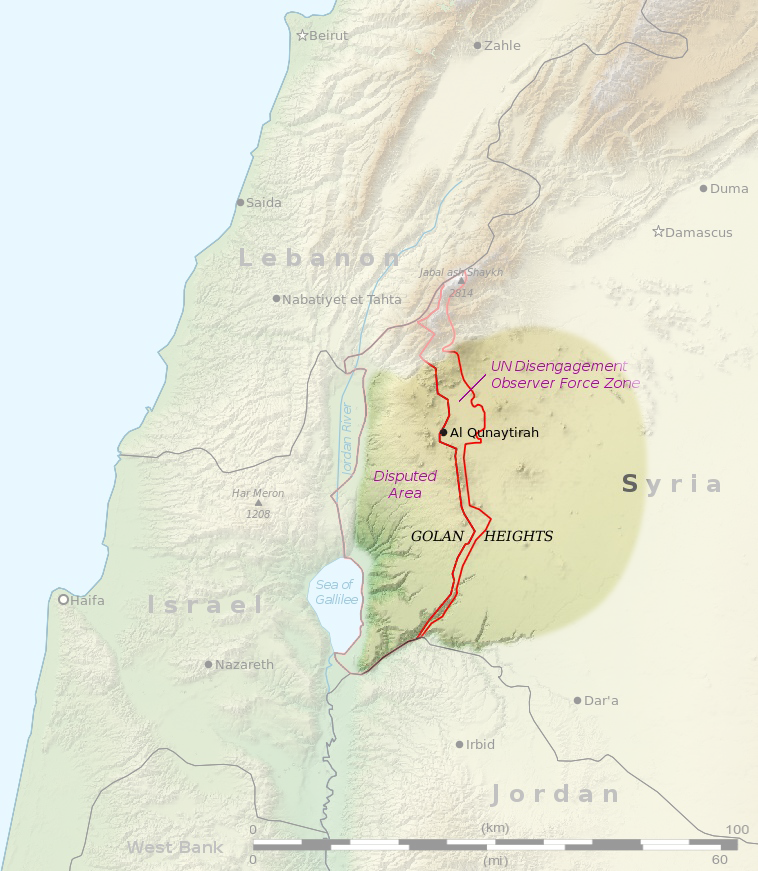 Map of Golan Heights